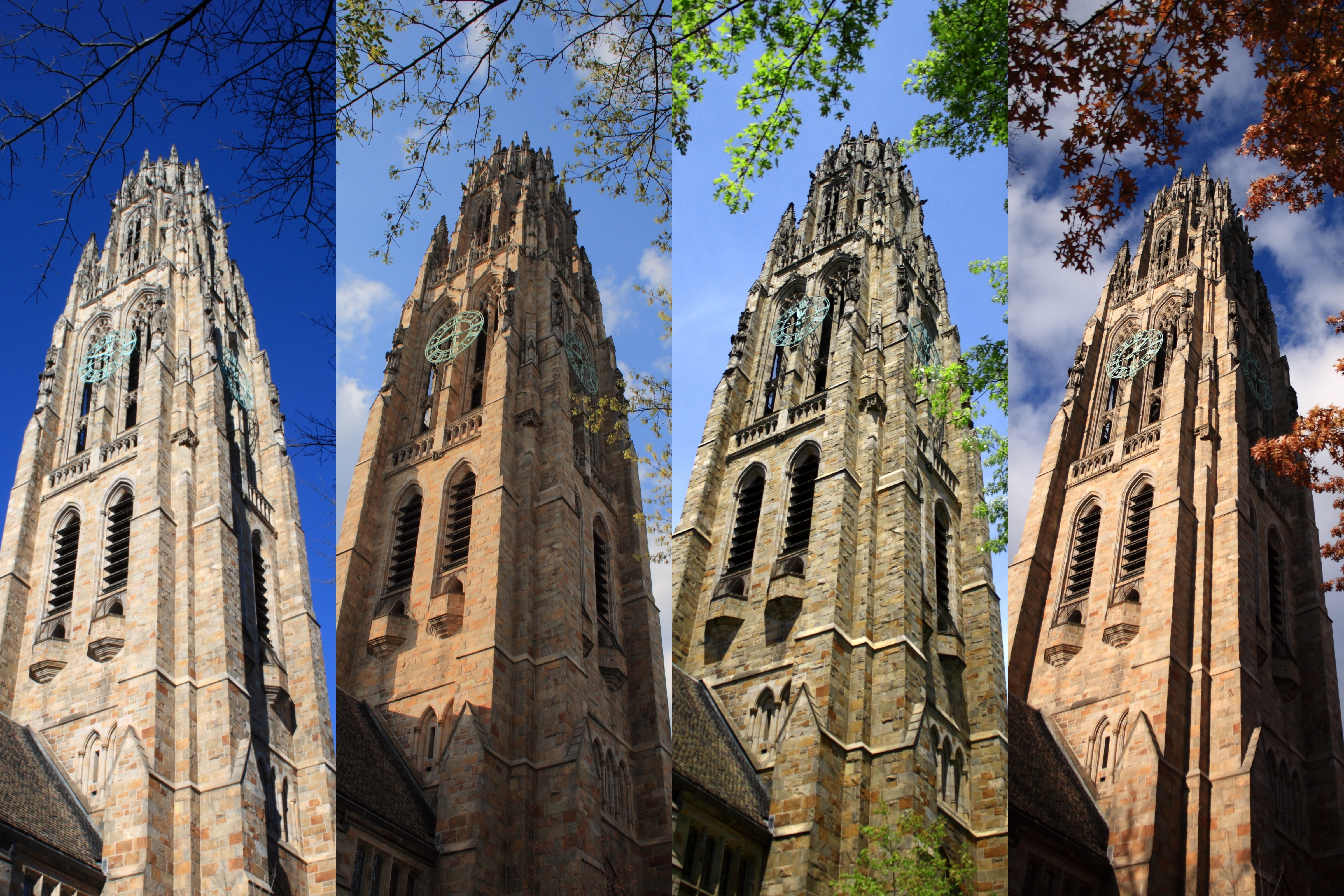 A composite image of Harkness Tower over 4 seasons in 2007-2008.